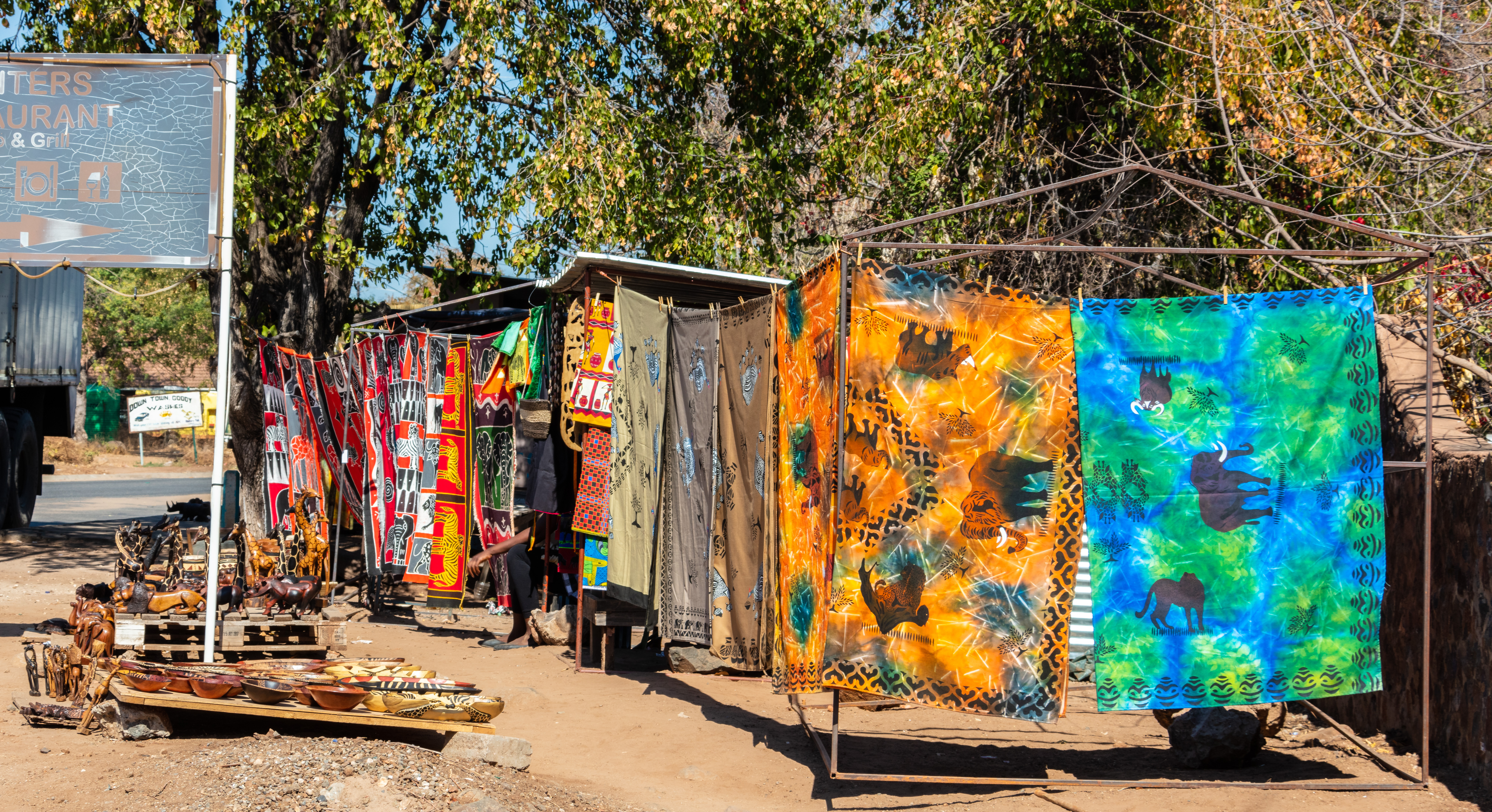 Shops in Kasane, Botswana